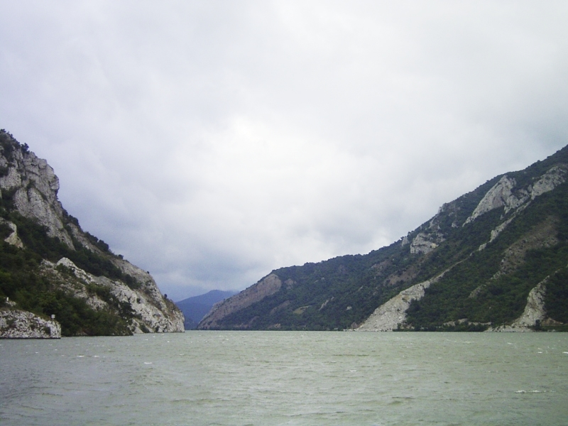 Iron Gate on the Danube